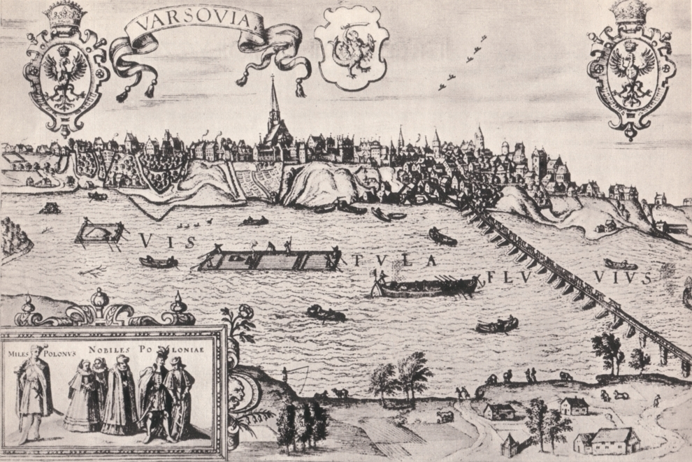 West side view of Warsaw city, Poland